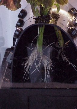 Agrihouse 05:16, 19 January 2007 (UTC)